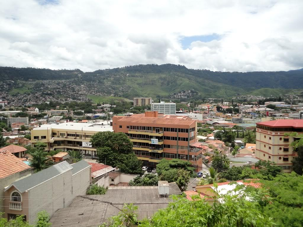 Looking north from Plaza España in the Lomas del Guijarro neighborhood with the National Institute of Statistics (INE) building prominent in the middle.